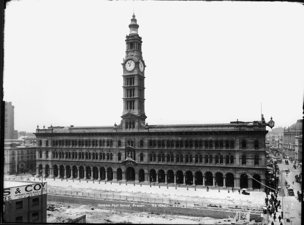 Format: Glass plate negative. Repository: Tyrrell Photographic Collection, Powerhouse Museum Part Of: Powerhouse Museum Collection General information about the Powerhouse Museum Collection is available at Persistent URL: [1] Acquisition credit line: Gift of Australian Consolidated Press under the Taxation Incentives for the Arts Scheme, 1985